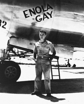 Colonel Paul Tibbets, pilot of the Enola Gay, waving from its cockpit. Photograph taken by the United States Army Air Forces (now the United States Air Force) in August, en:1945 and now in custody of the US's National Archives and Records Administration. The image is in the public domain, as with most US federal government documents.